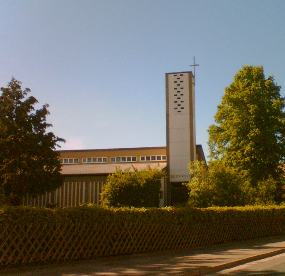 church Heilig Geist in Markoldendorf Germany